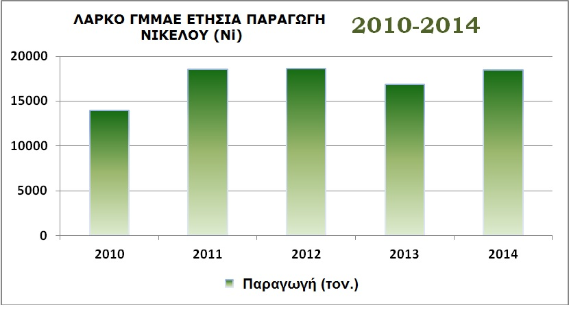 Production of GMMSA LARCO